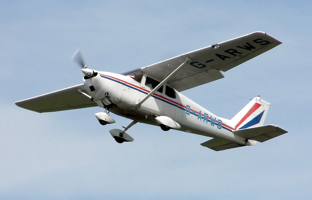 Cessna 175C Skylark (UK registration G-ARWS, built 1962) at Kemble Airfield, Gloucestershire, England. Photographed by Adrian Pingstone in July 2005 and released to the public domain.